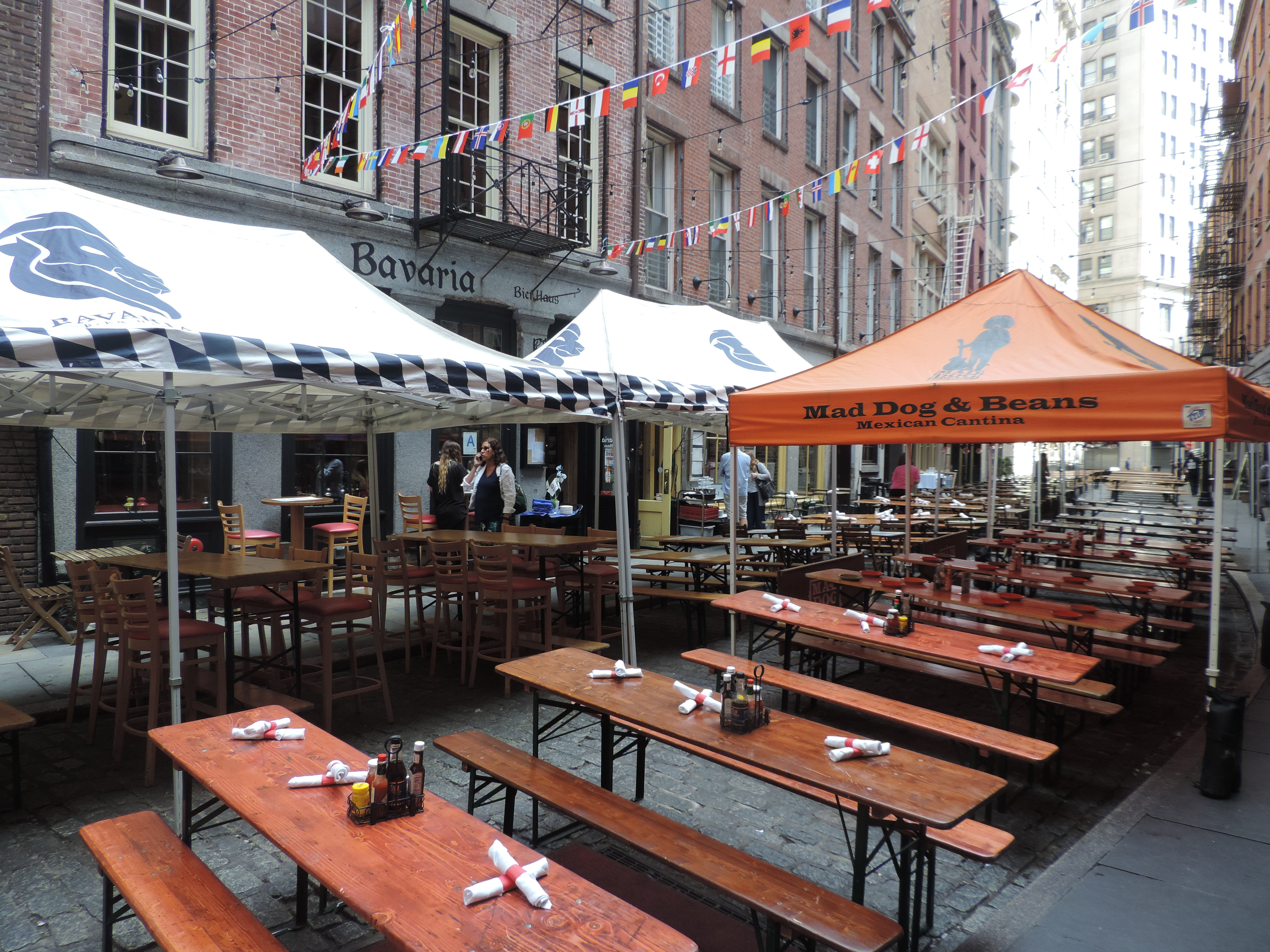 Looking northeast towards Mill Lane on a sunny late morning.